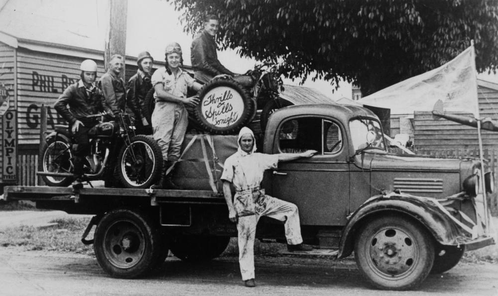 Motor Cycle stunt team, Thrills and Spills, Bundaberg. Jack Clemence (white overalls)- driver V. Vaschina - on Velocette, Bonnie Archer ;Ted Norgrove; Jim Fowkes; Herman Langbecker (white overalls). Truck is a Bedford from UK, of 2-3 load capacity, circa 1937.